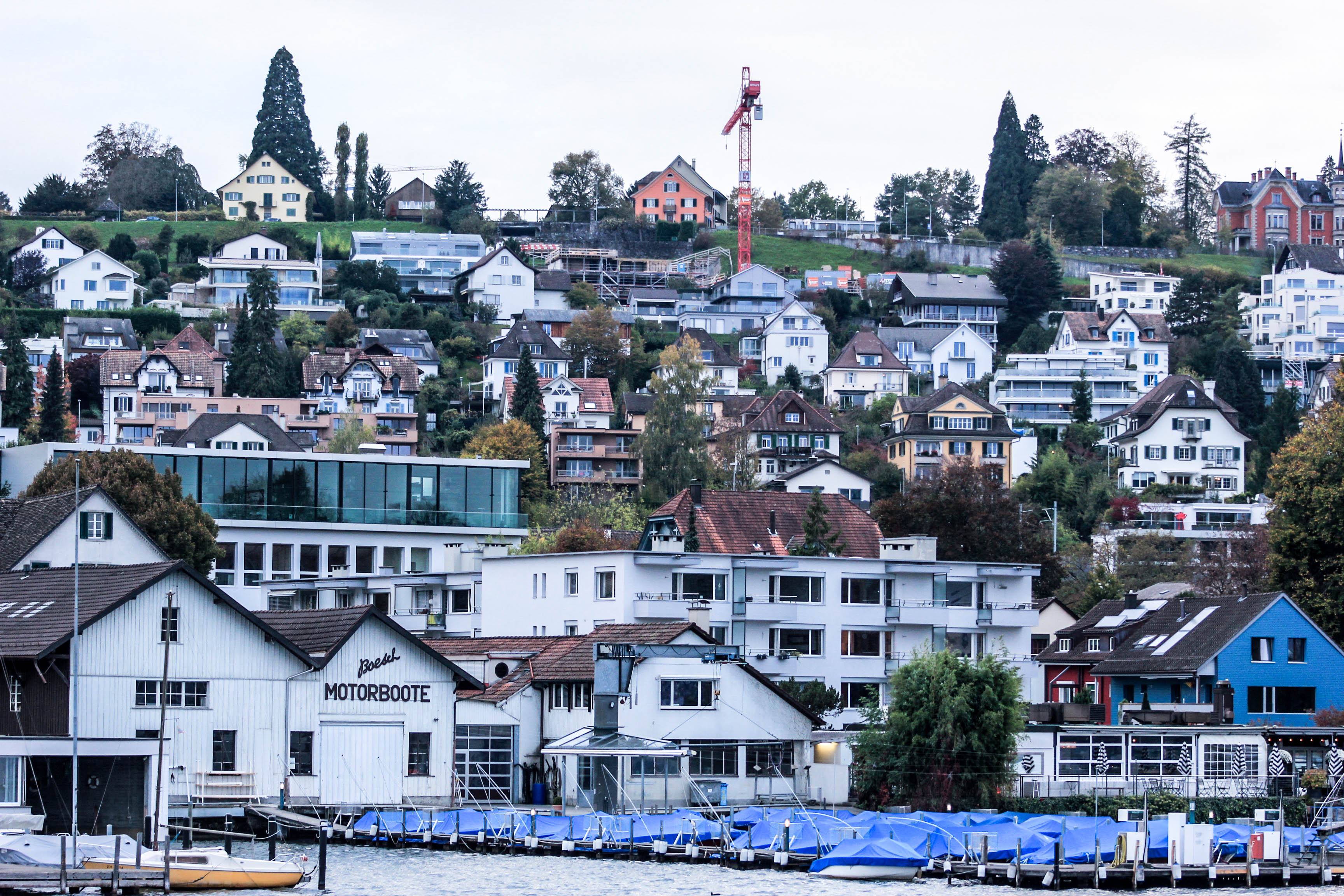 View to Zürich from Züricher See